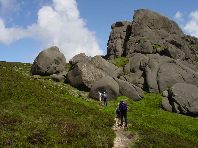 Granite boulders on North Tor. North Tor forms the northern spur to Slieve Binnian and has several granite tors